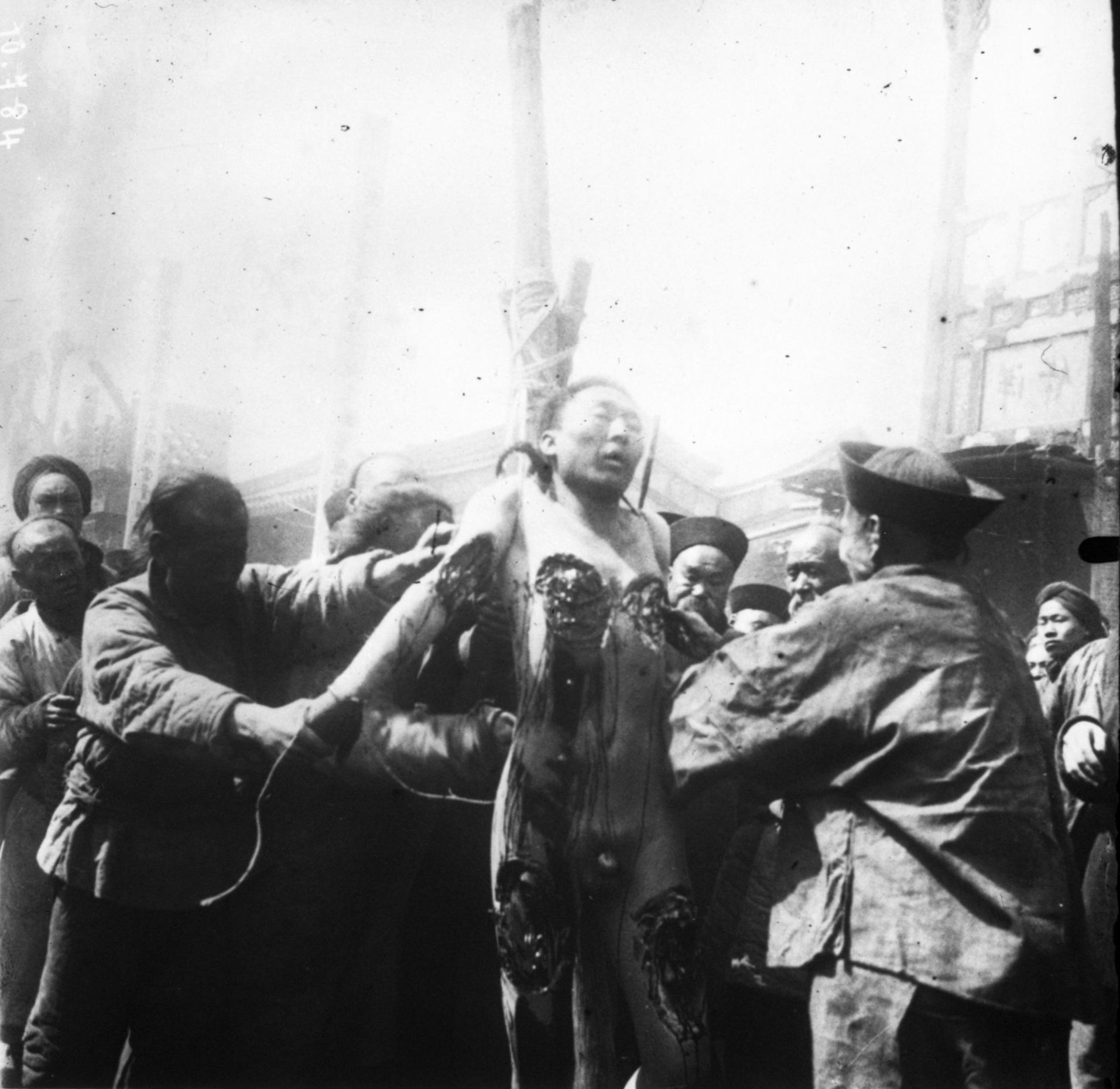 Torture victim in China (lingchi torture in Beijing around 1910] : [press photograph] / [Agence Rol]